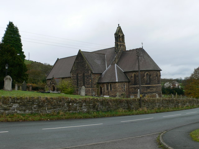 St Mary's Church, Brymbo, near to Brymbo, Wrexham/Wrecsam, Wales. A church was built for Brymbo in 1838, but unfortunately it began to collapse because of subsidence due, most probably, to extensive coal-mining in the area. This church was built in 1871, a short distance from the site of the first church.